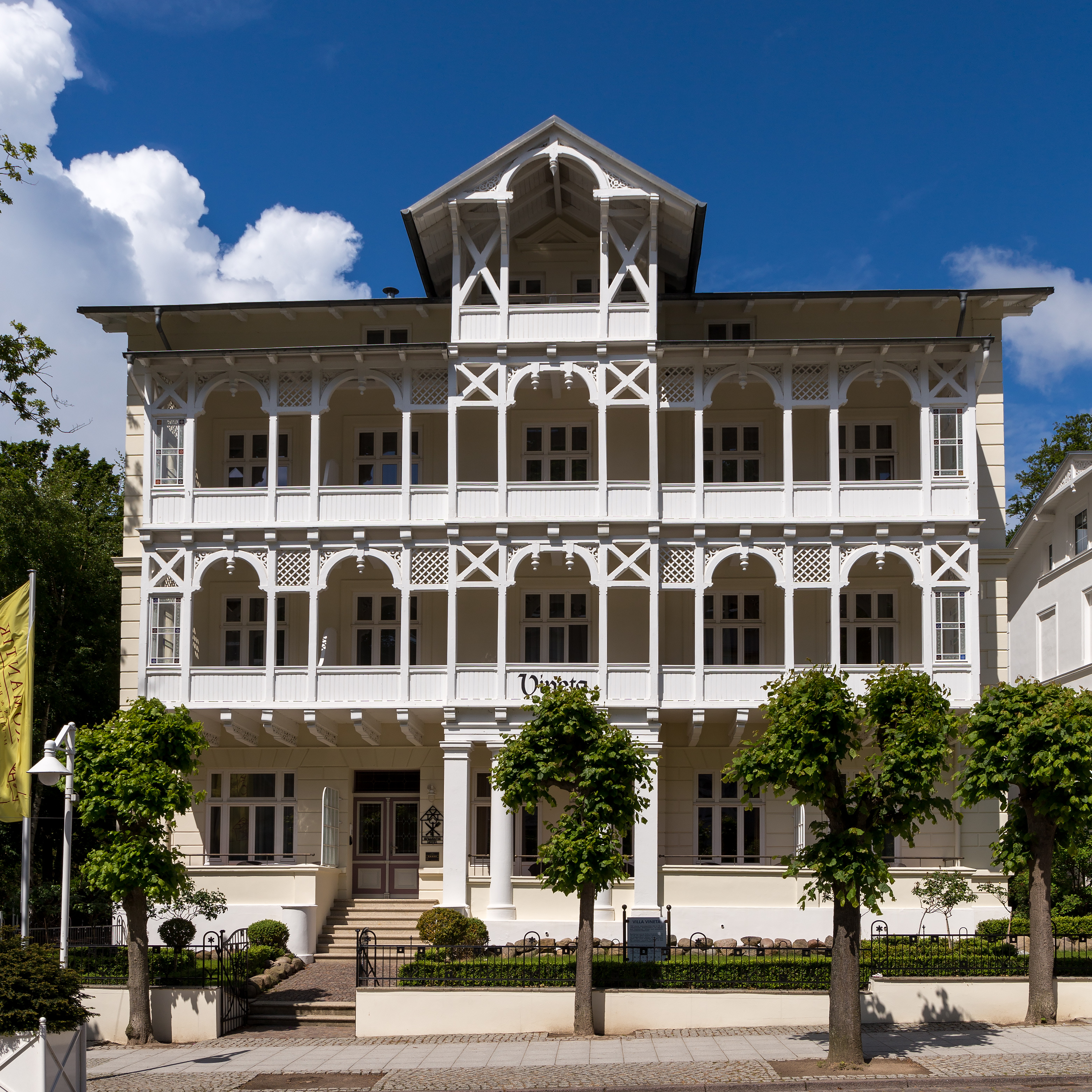 Villa Vineta in Sellin (Rügen).